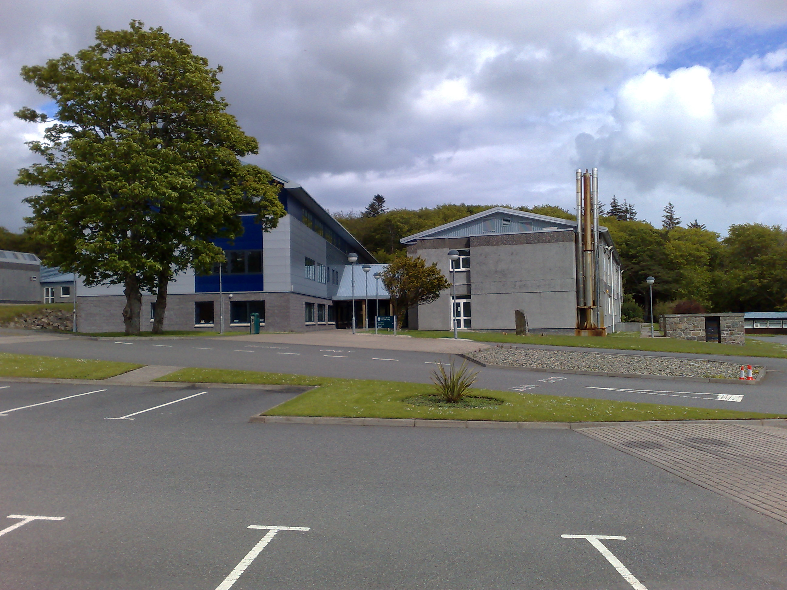 A photo of Lews Castle College facing the main entrance